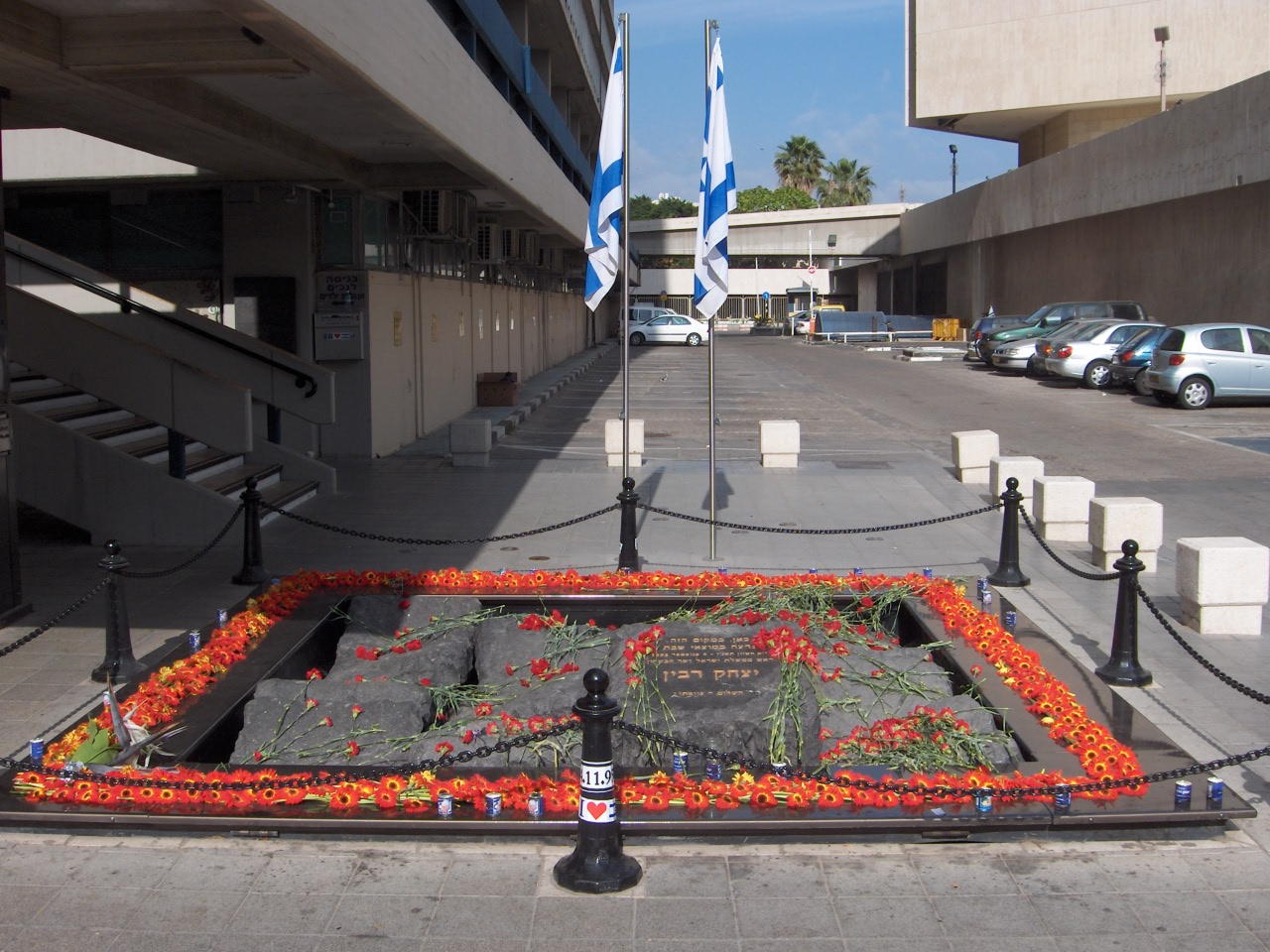 Place of murder of Yitzchak Rabin